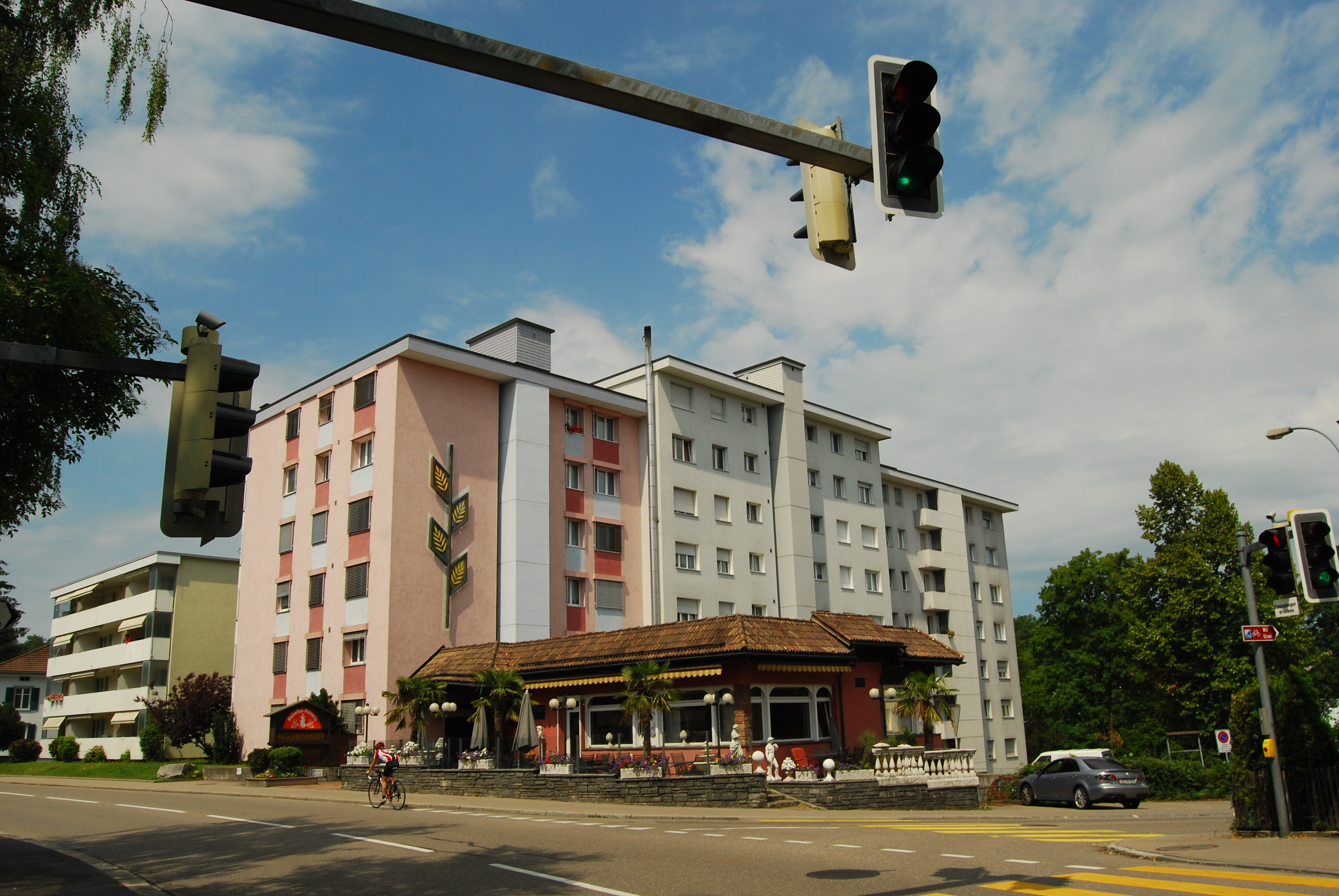 Flawil, canton of St. Gallen, Switzerland